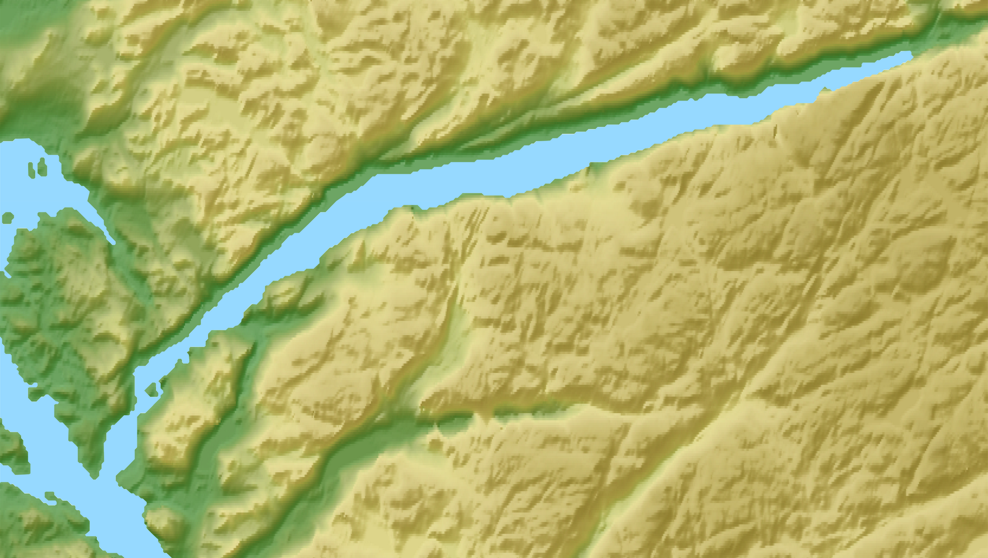 Equirectangular projection, N/S stretching 200% Geographic limits of the map: N: 59.0709° N S: 58.8742° N W: 6.00607° E E: 6.70139° E